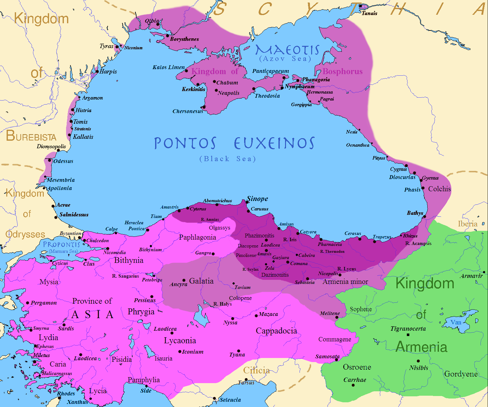 Map of the Kingdom of Pontus, Before the reign of Mithridates VI (darkest purple), after his conquests (purple), and his conquests in the first Mithridatic wars (pink); little adds (ancient shorelines & some greek colonies under Mithridate's rule) according with V. Yanko-Hombach, A.S. Gilbert, N. Panin, P. M. Dolukhanov: The Black Sea Flood Question: Changes in Coastline, Climate, and Human Settlement, Springer, Netherlands, 2007, and with Appianus, Plutarchus & Strabo.